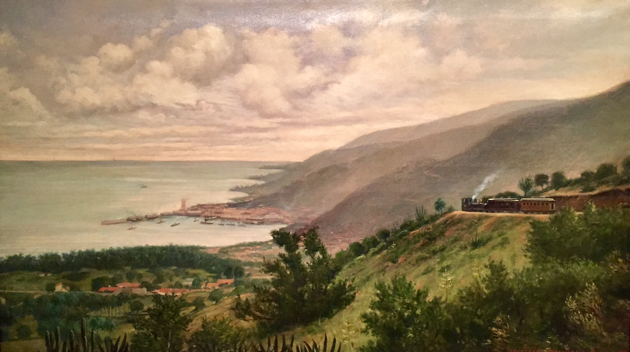 Vista de Maiquetía por Gustavo Langenberg Winckelmann.